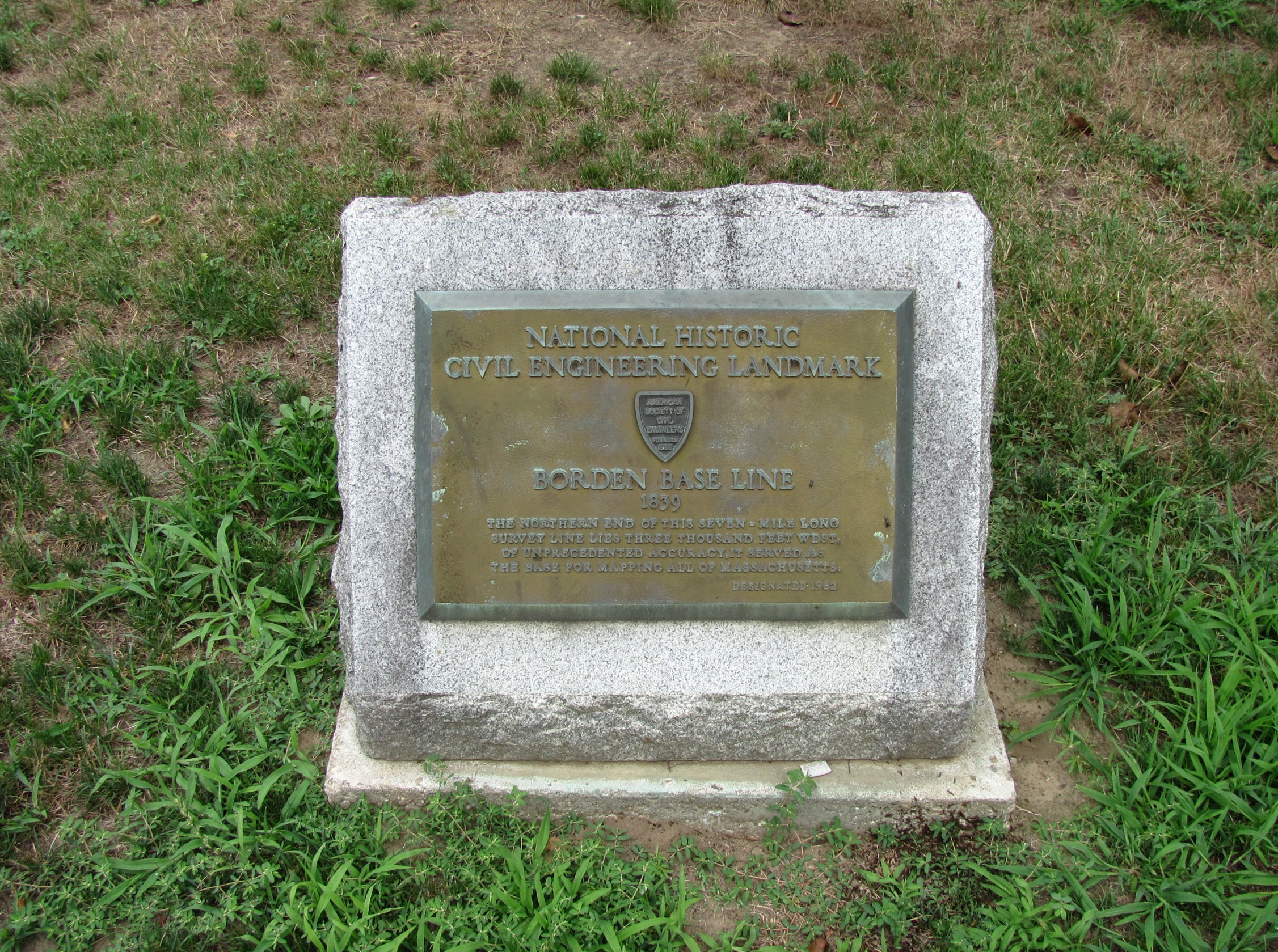 Borden Base Line Plaque, South Deerfield Massachusetts - in front of the Tilton Library